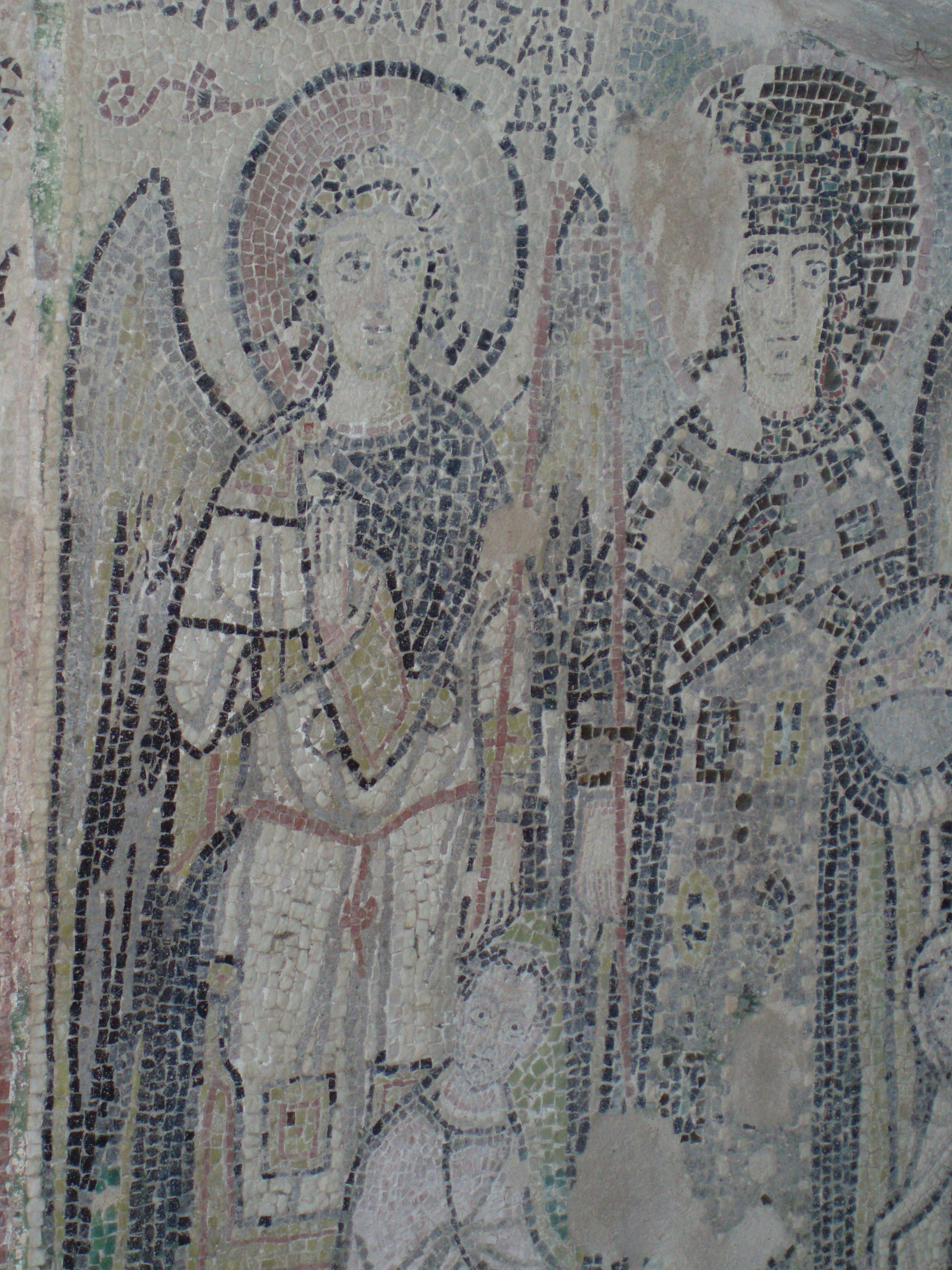 Old christian basilica under the amphitheater in Durrës, Albania. Palaeochristian mosaic.